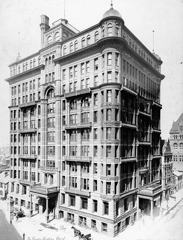 The Temple Building in 1902, Toronto, Ontario, Canada.